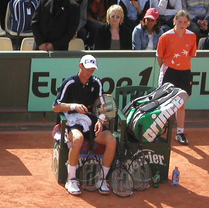 Russian Tennis player Davydenko at the French Open